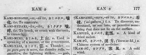 One of the earliest texts using the word Kampō.